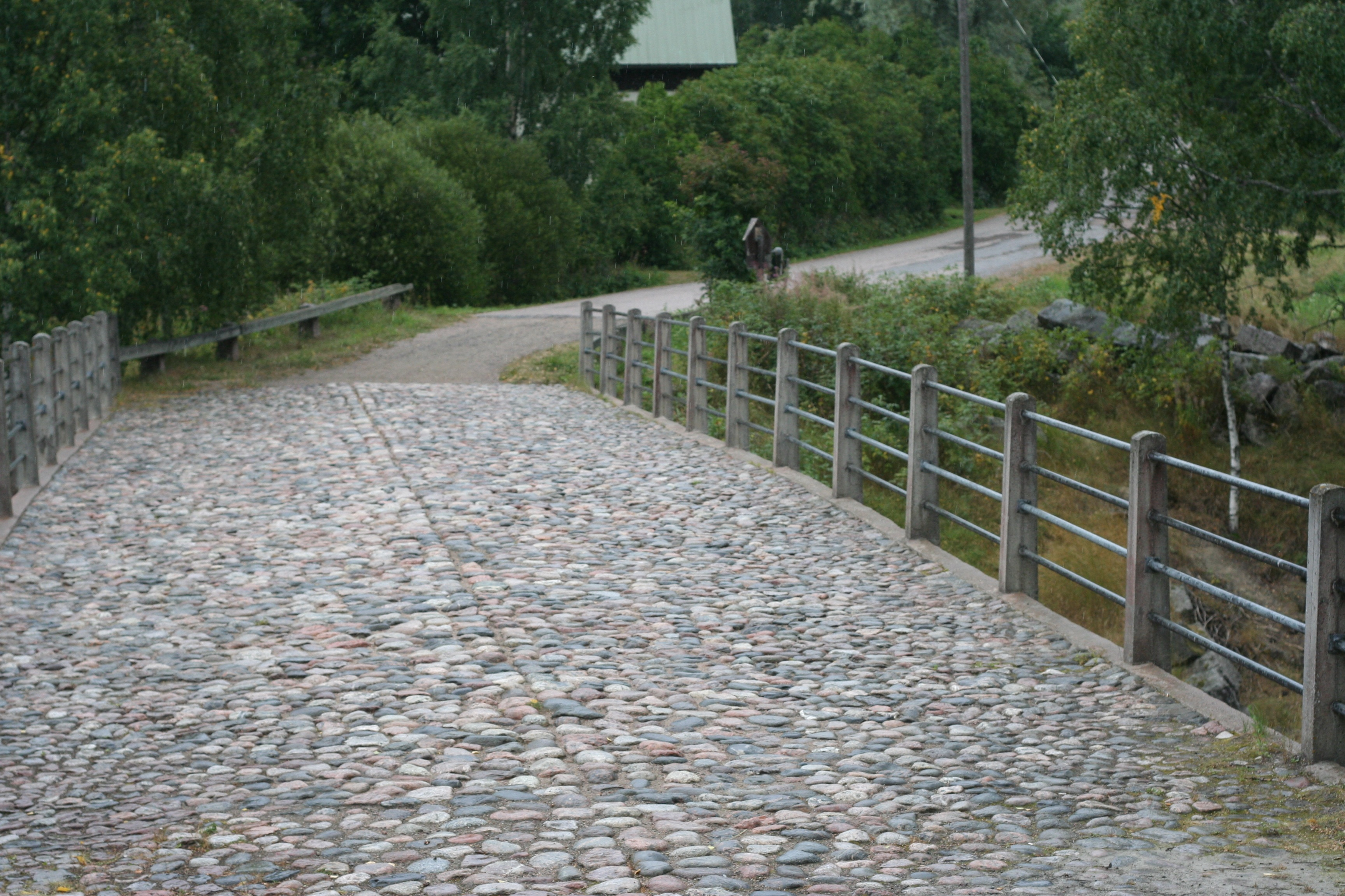 Surface of Tönnö Bridge in Orimattila, Finland